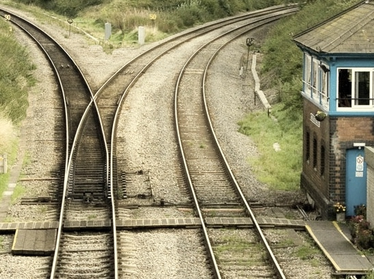 A photo of Norton Junction